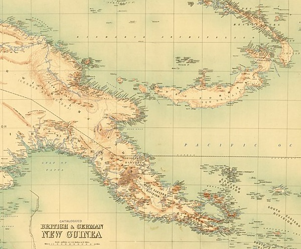 Mapa de Nova Guiné antes da Primeira Guerra Mundial